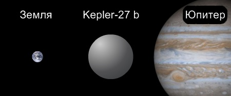 Comparative sizes of Earth, Kepler-27 b and Jupiter.